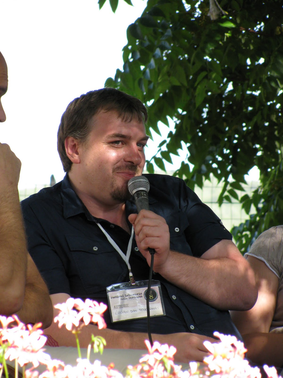 Lucian Dan Teodorovici at the Literaturfestival in Gavoi (Sardegna)